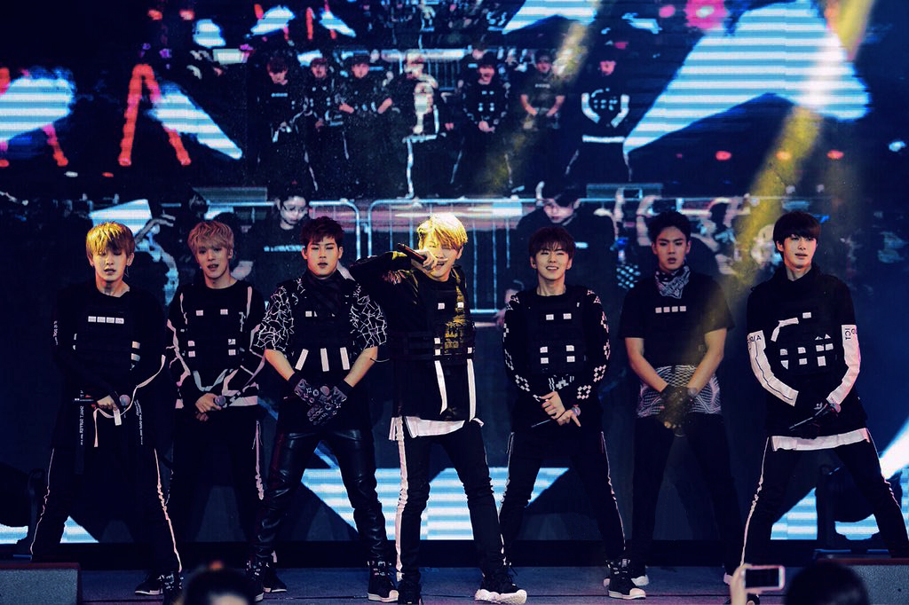 Fanmeeting in Singapore